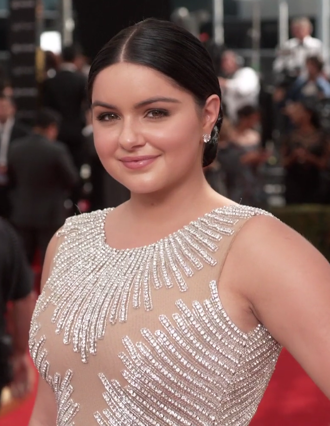 Ariel Winter at 2016 Emmy Awards Red Carpet